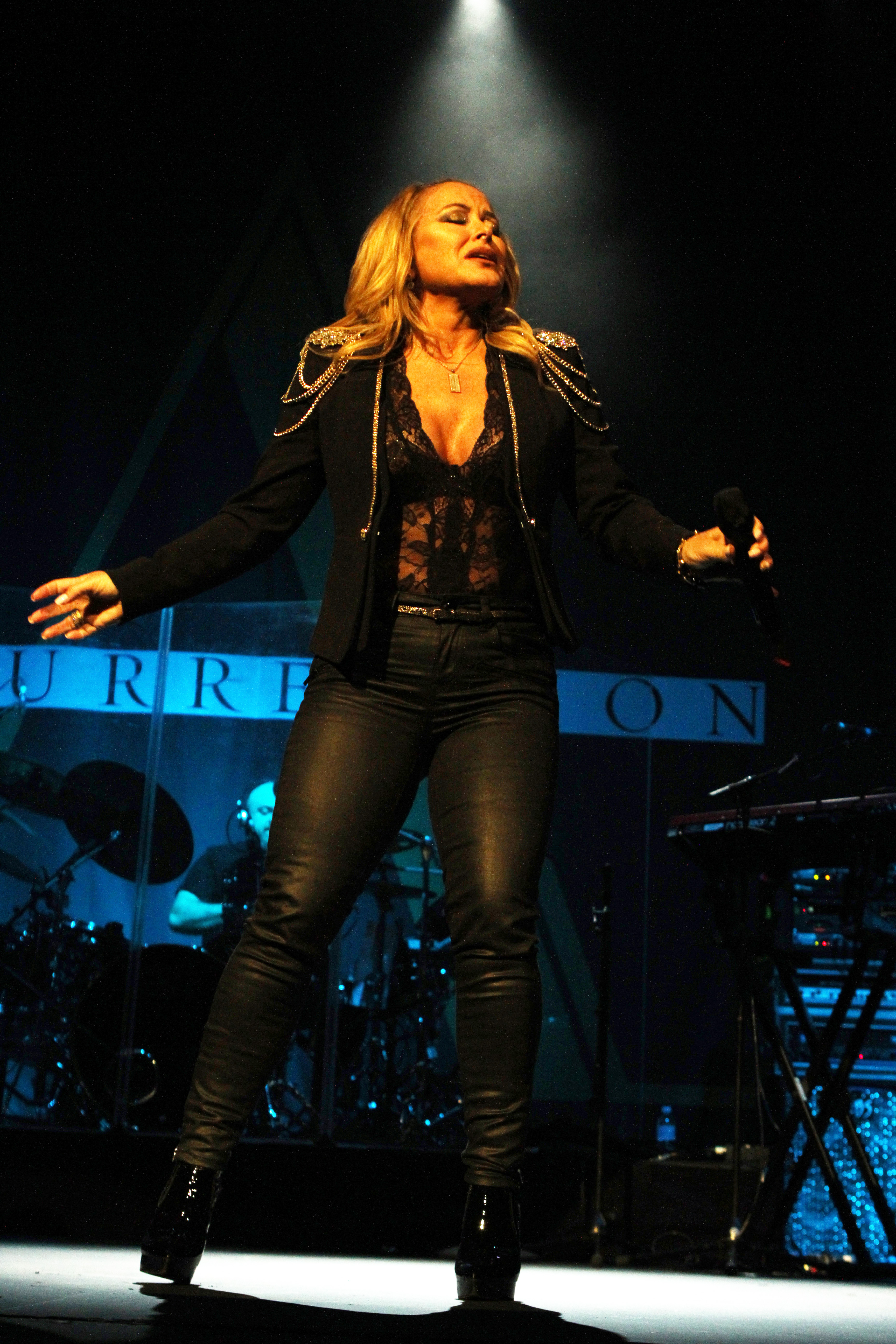 Anastacia Resurrection Tour @ The Star